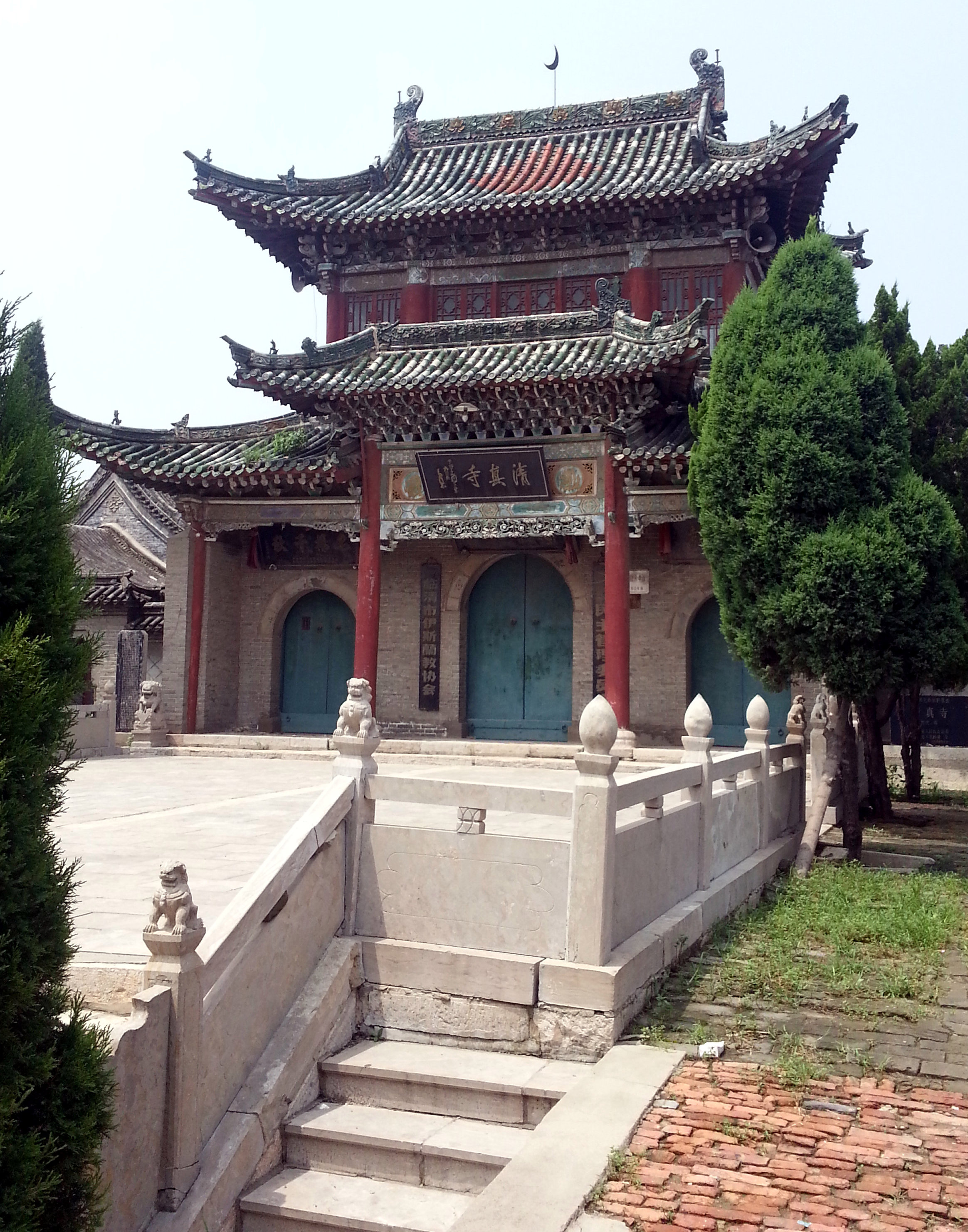 Photograph of the Western mosque (临清西清真寺) in Linqing, Shandong, China.